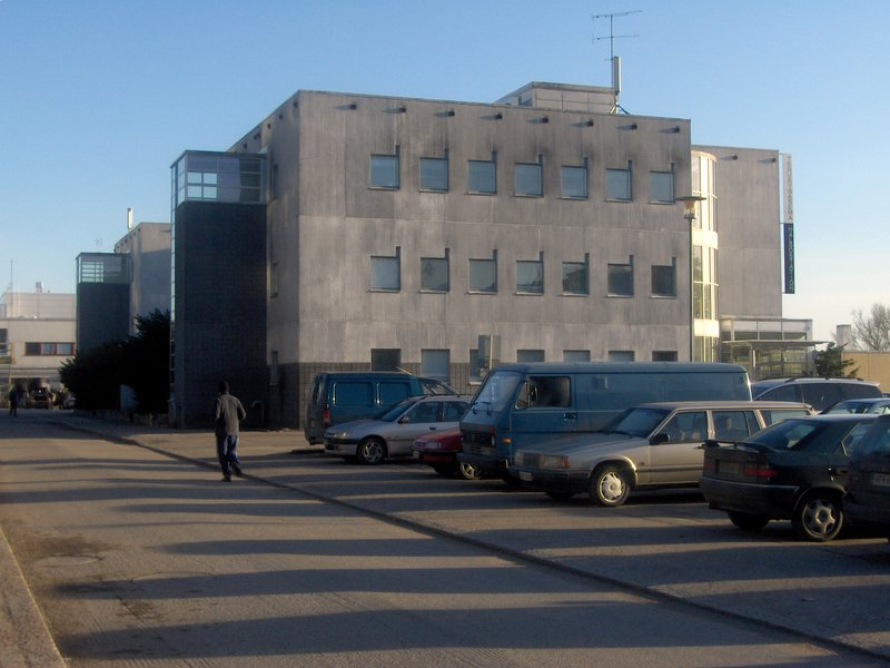 Kontula health centre in Helsinki, Finland.